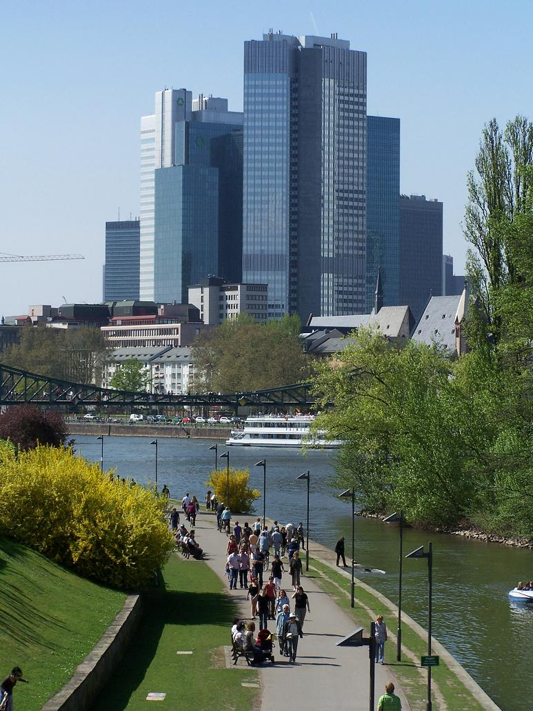 Eurotower, European Central Bank, Frankfurt am Main